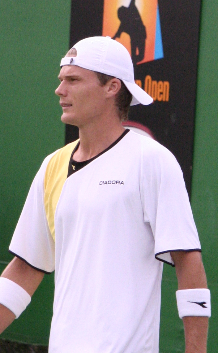 Peter Luczak at the 2007 Australian Open, during his first-round mens doubles match, partnering Wayne Arthurs.